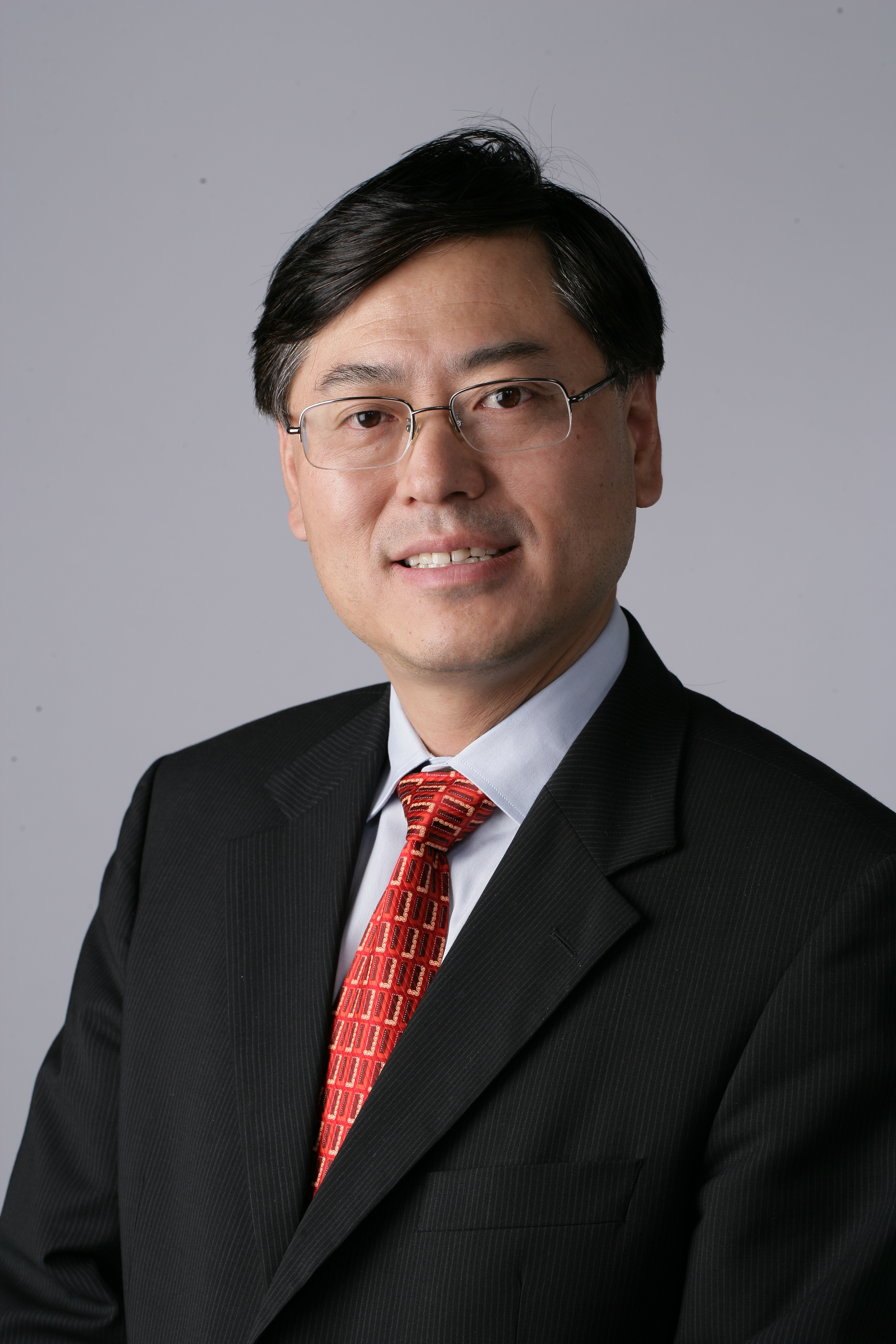 Lenovo CEO Yang Yuanqing